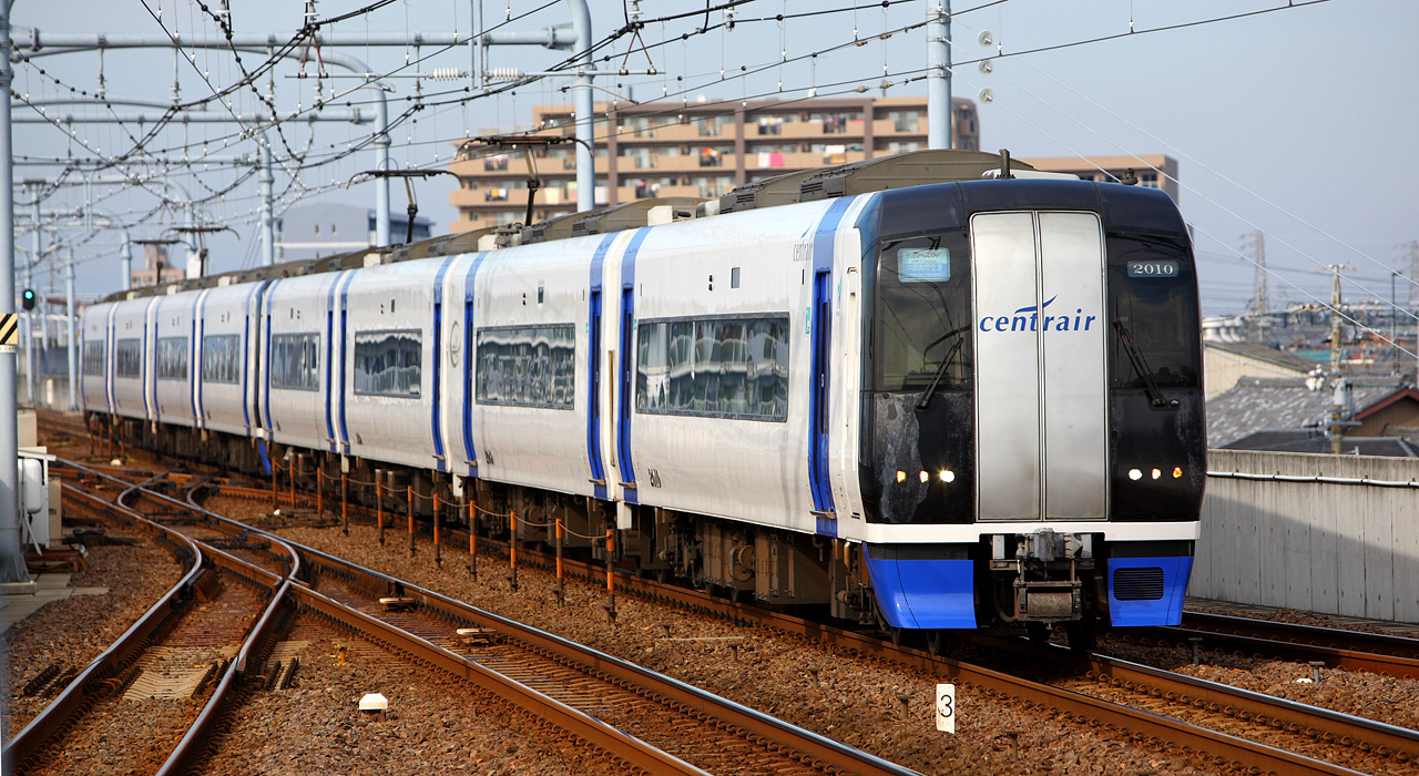 Meitetsu 2000 series EMU at Tokoname Station.